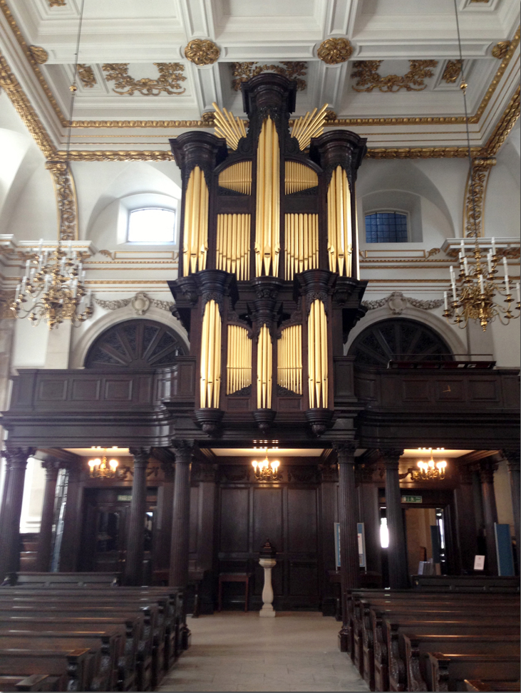 St Lawrence Jewry View of the Organ